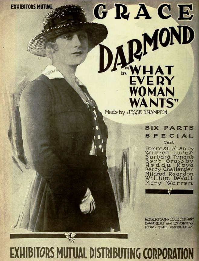 Ad for the American film What Every Woman Wants (1919) with Grace Darmond, on page 442 of the January 25, 1919 Moving Picture World.